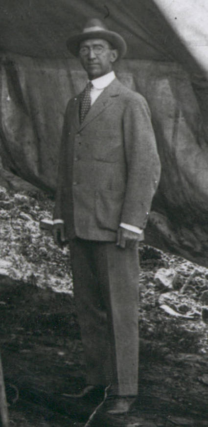 Howard R. Hughes, Sr (1869–1924), standing outdoors by a trench mining drill, which is underneath a tent-like canopy. Part of the Sharp-Hughes Tool Company's Second and Girard Streets plant in Houston, Texas (today the site of University of Houston–Downtown) is seen in the background.